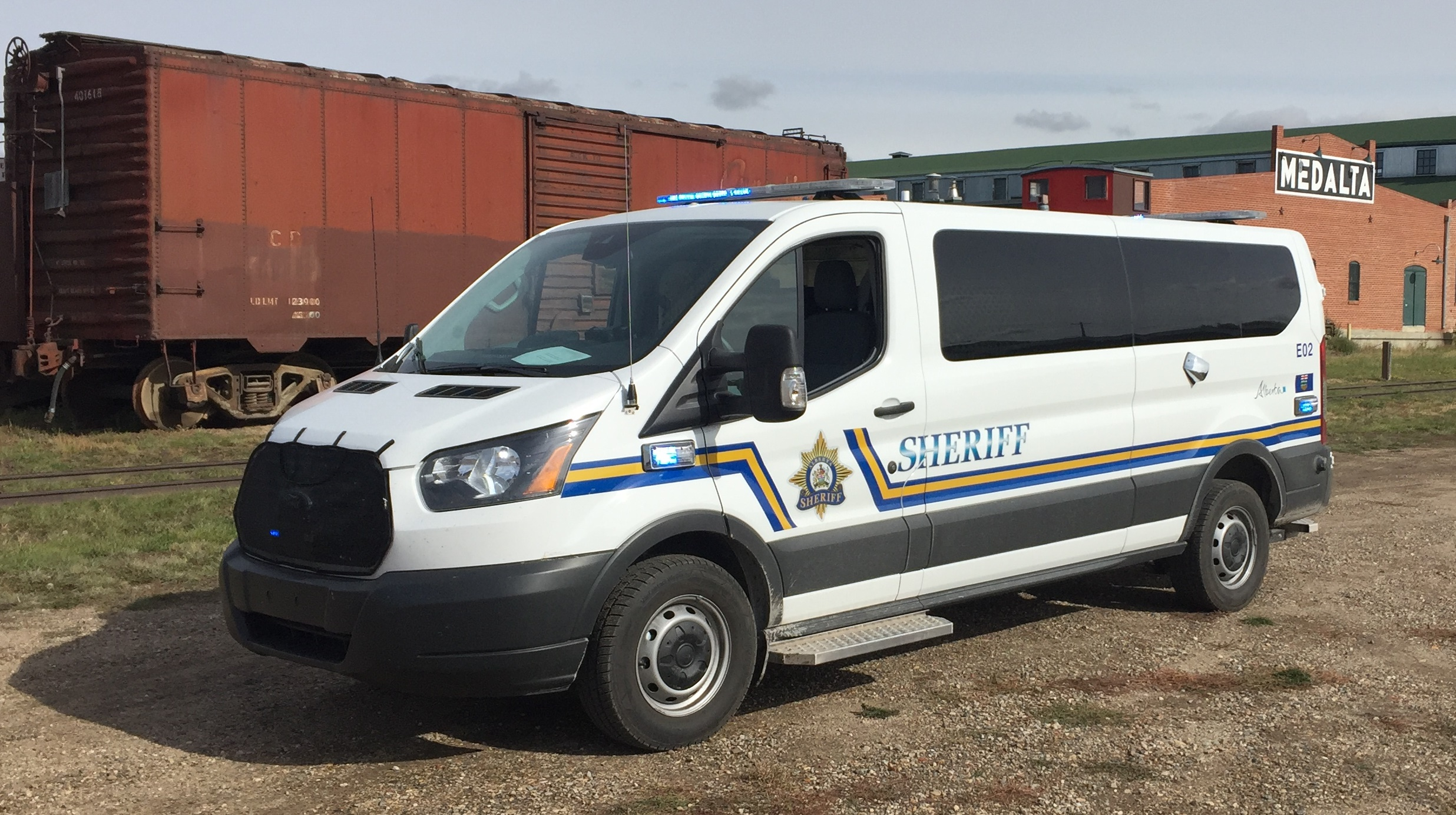 Ford Transit Van, outfitted for prisoner transport. In service with the Alberta Sheriffs Branch.